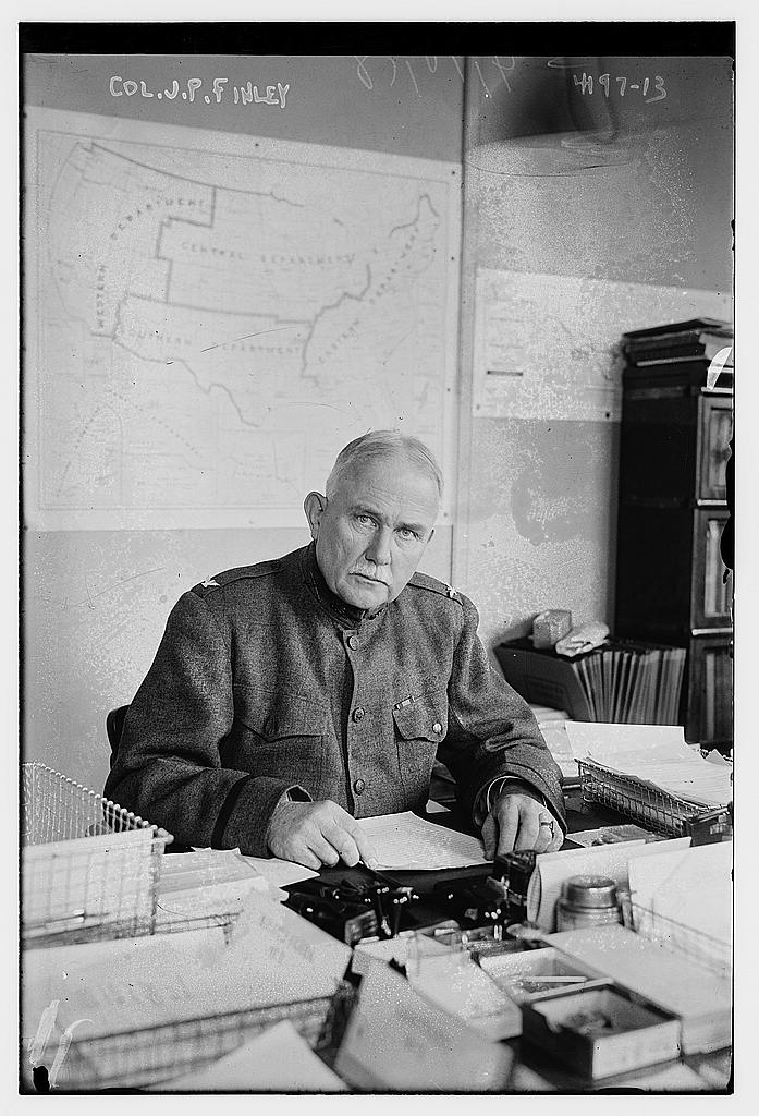 John Park Finley in 1917